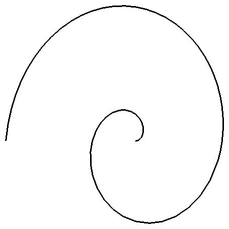 picture of a smooth curve (spiral)